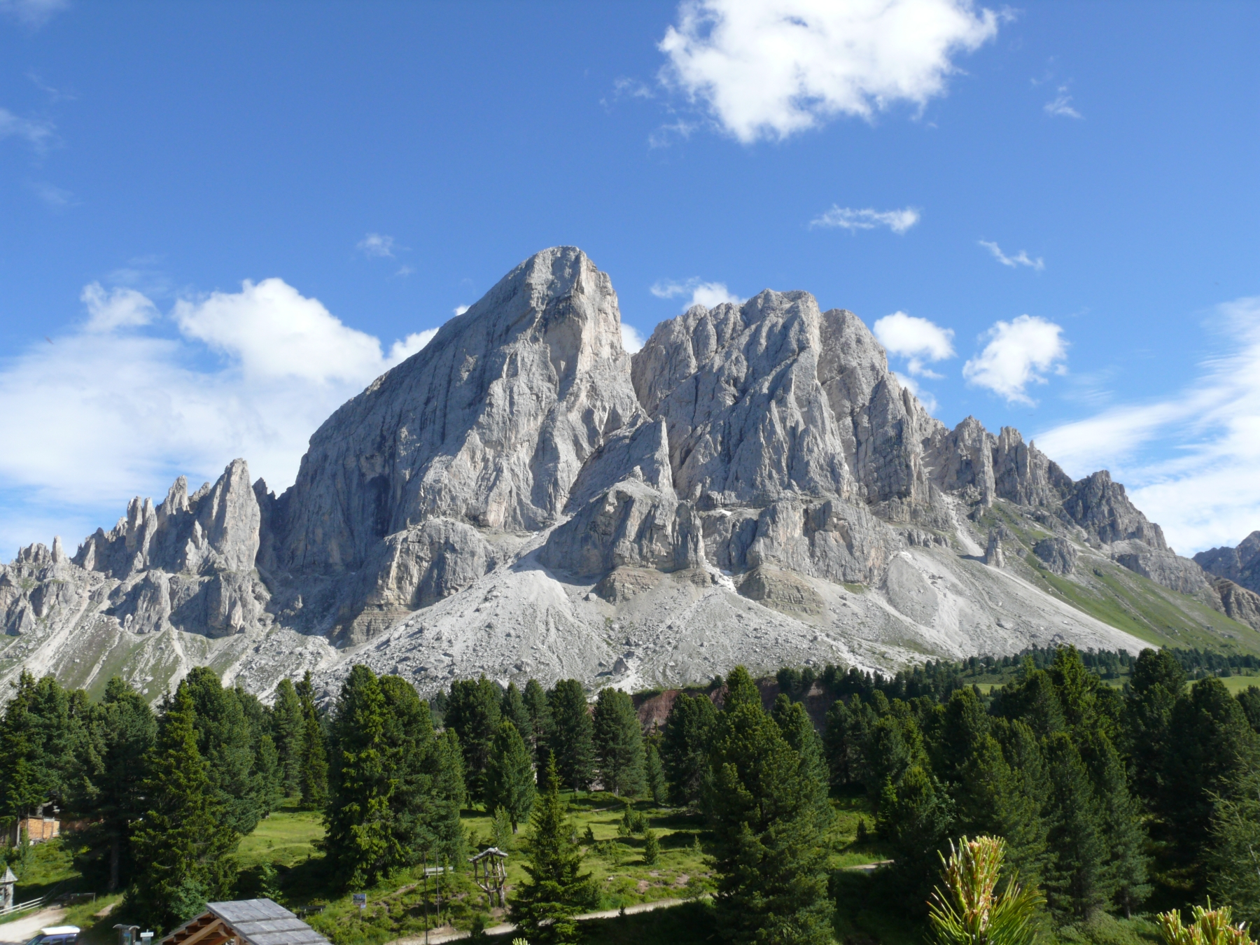 Peitlerkofel, Dolomites, Italy